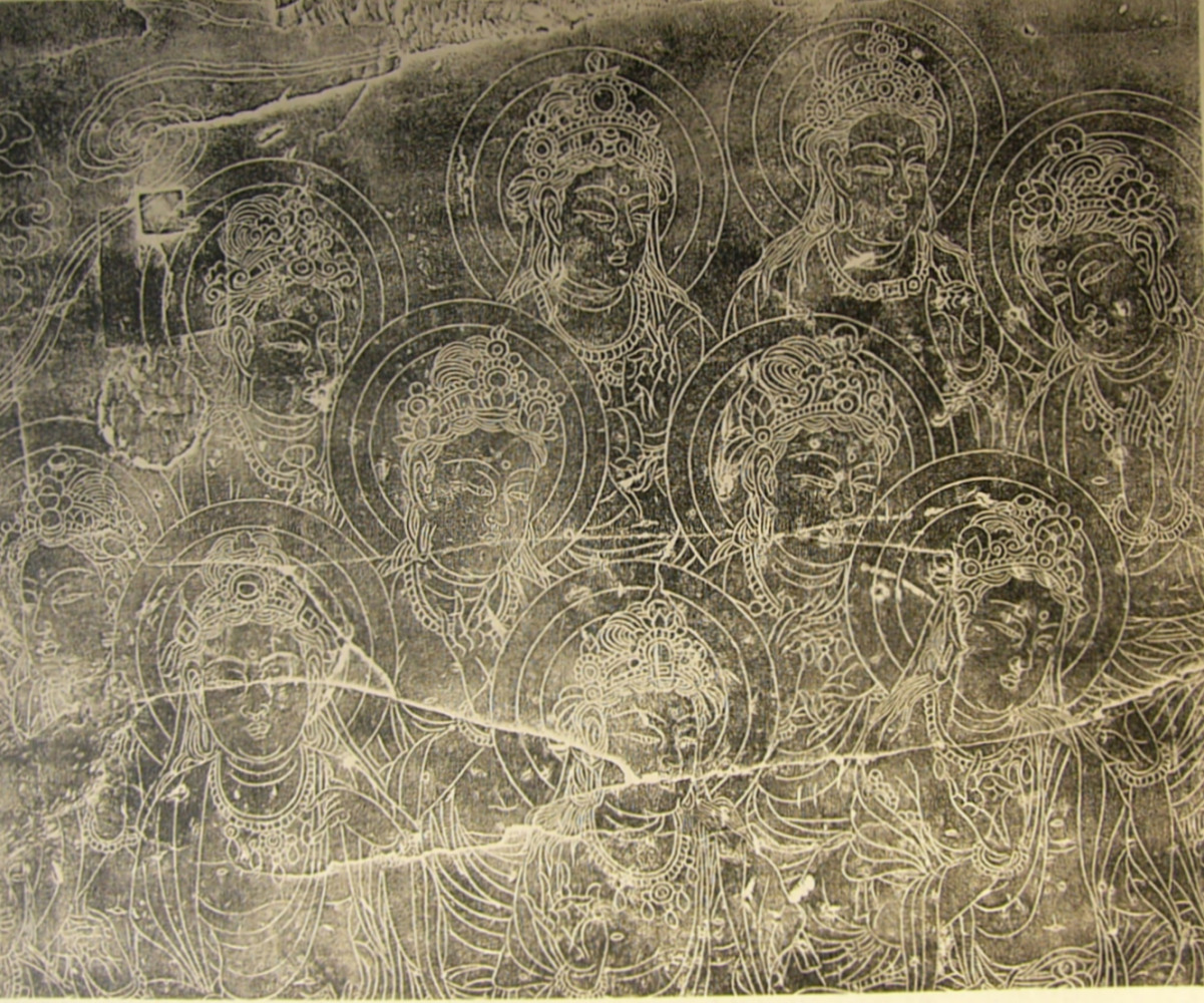 Rubbing of Incised images on a bronze lotus petal on Statue of Buddha at Todaiji Temple , NARA, Japan about 2 feet height, about ACE 752